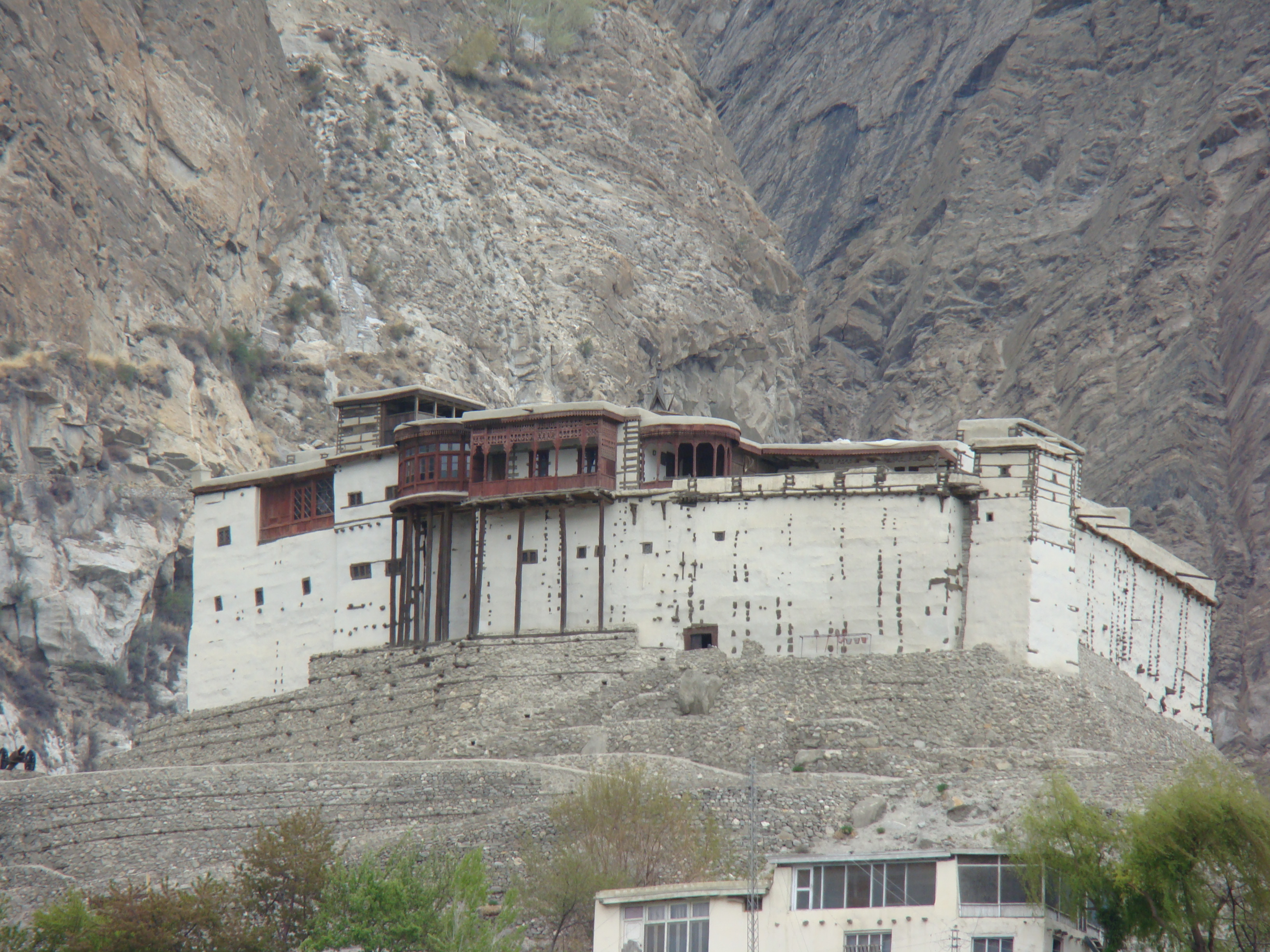 Baltit Fort This is a photo of a monument in Pakistan identified as the GB-15